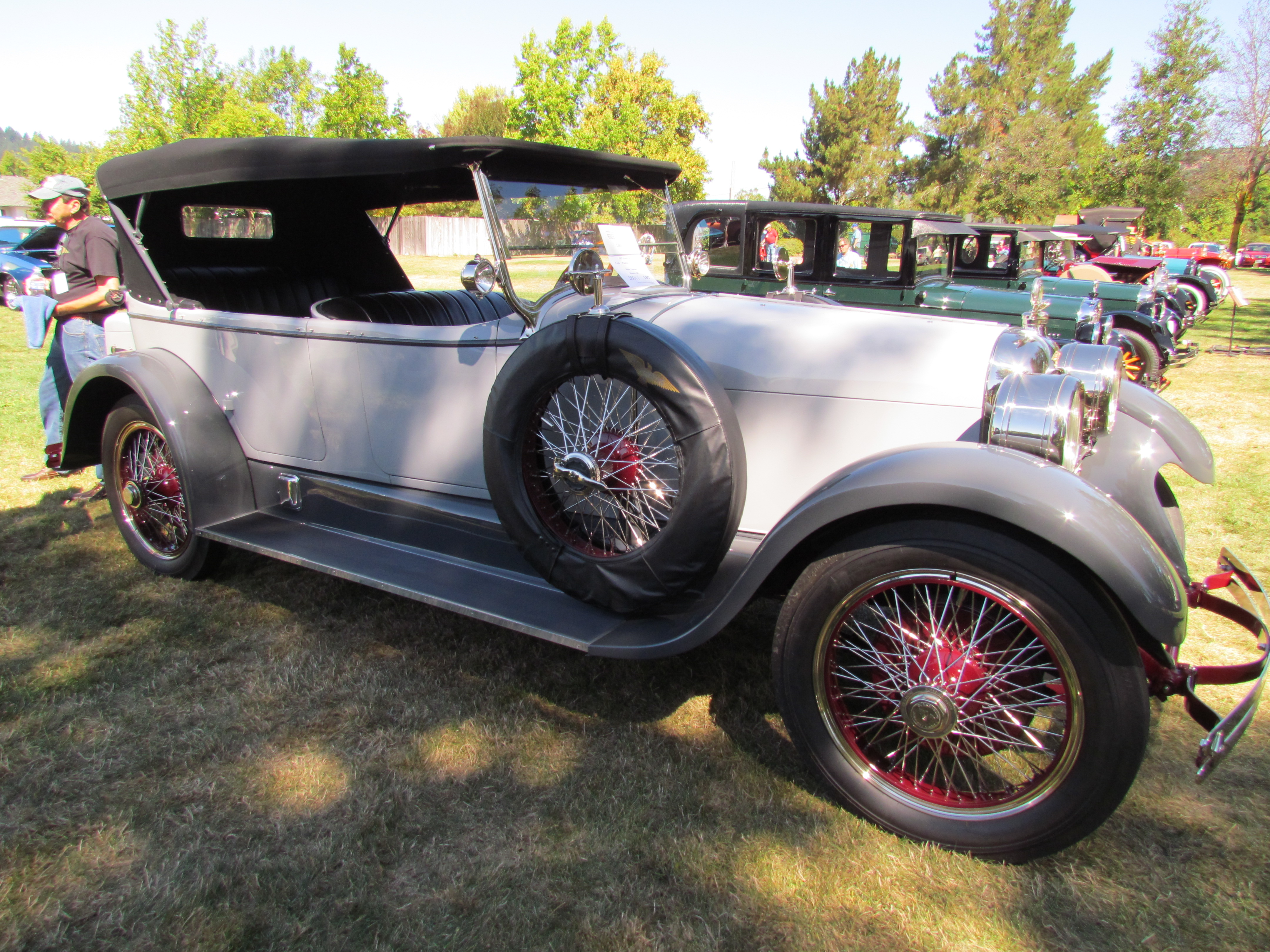 1922 Duesenberg Santa Rosa, California, United States